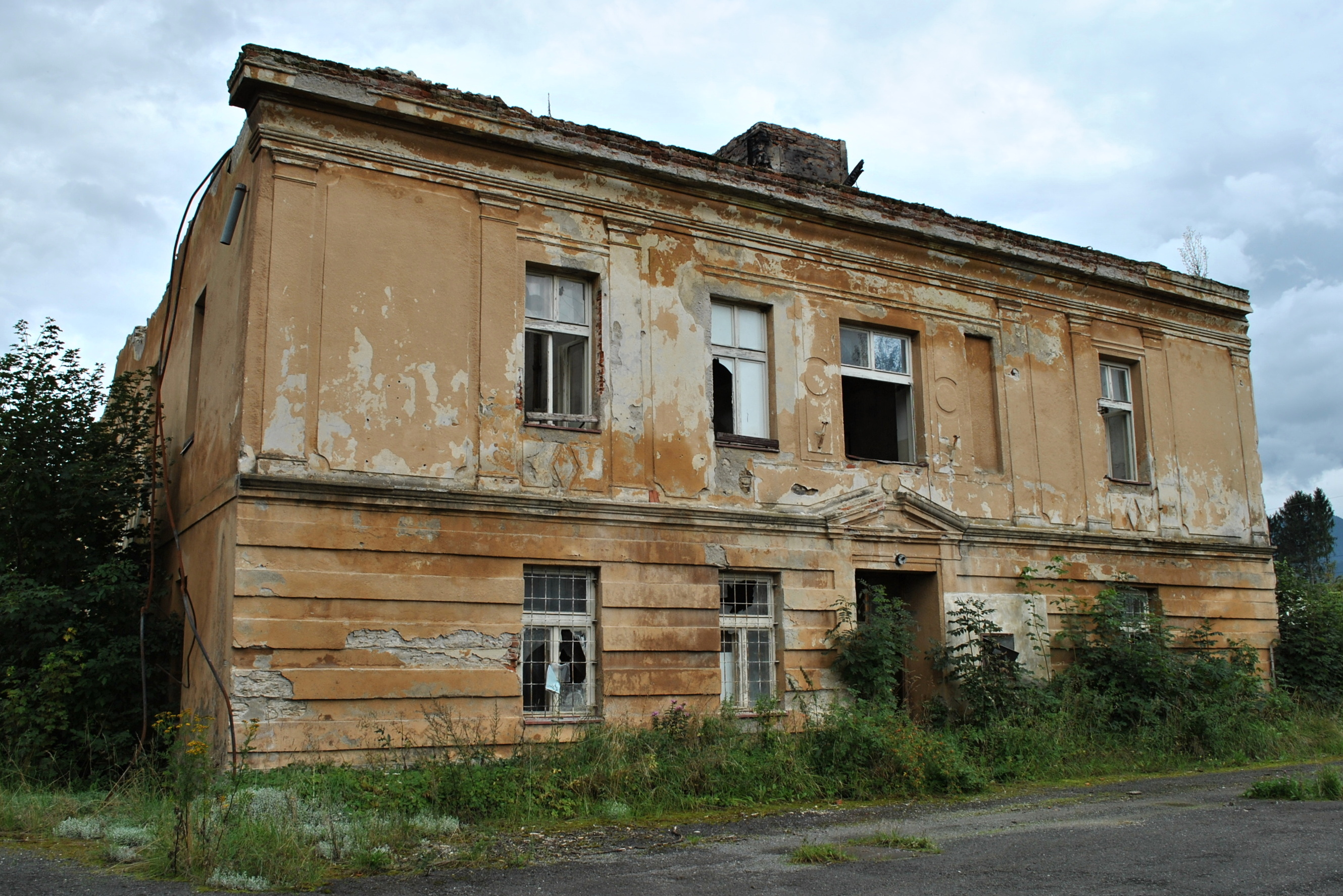 Beňadiková, district of Liptovský Mikuláš, Liptov region - manor-house